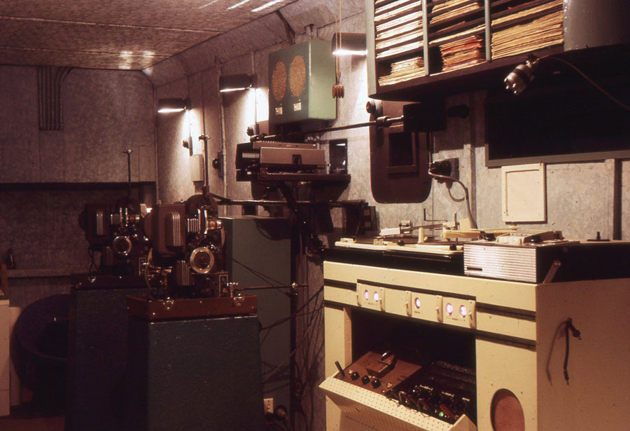 Paul Ruckert Australian Film Producer Cinematographer Invincible Pictures Vogue Theatrette